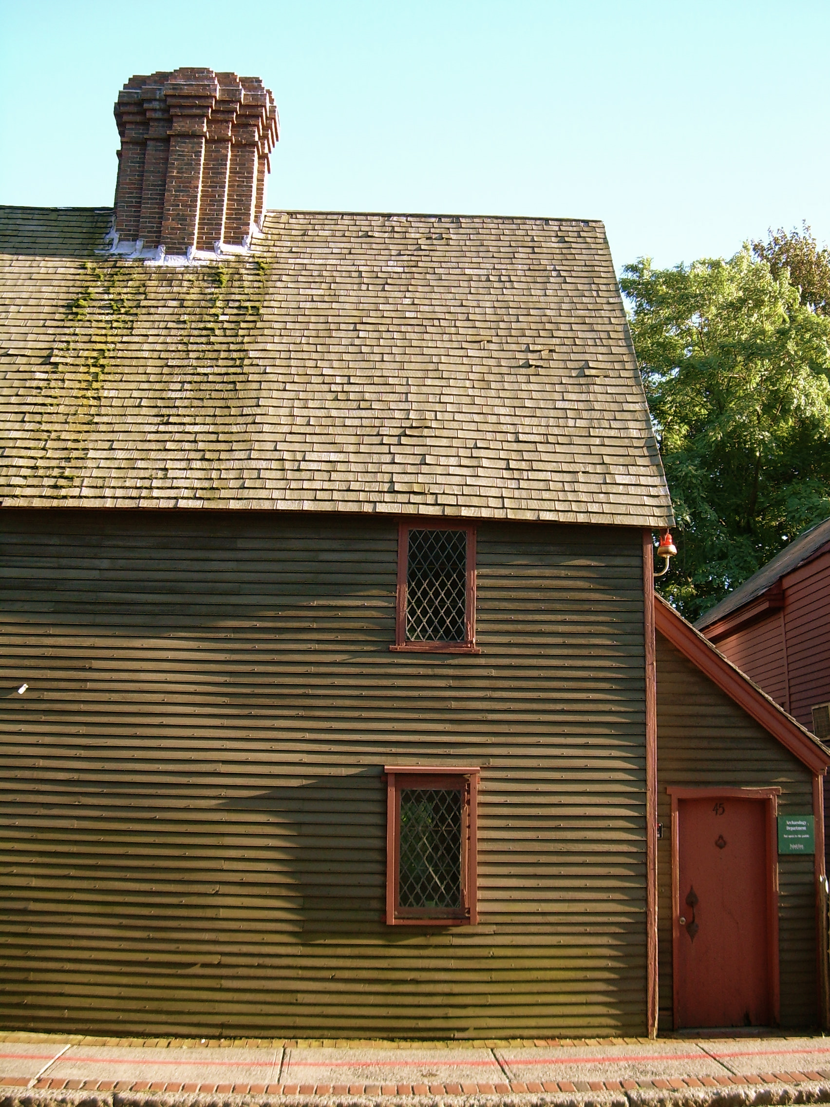 The Pickman House, Salem Massachusetts. Located on Charter Street behind the Peabody Essex Museum, the oldest continually opeated museum in America, the house was built c. 1664 and is believed to be Salem's oldest surviving building. The house abuts the Witch Memorial dedicated in 1992 on the 300 anniversary and is also next to the 2nd oldest buring ground in America! It is on the National Register of Historic Places as part of the Charter Street Historic District.